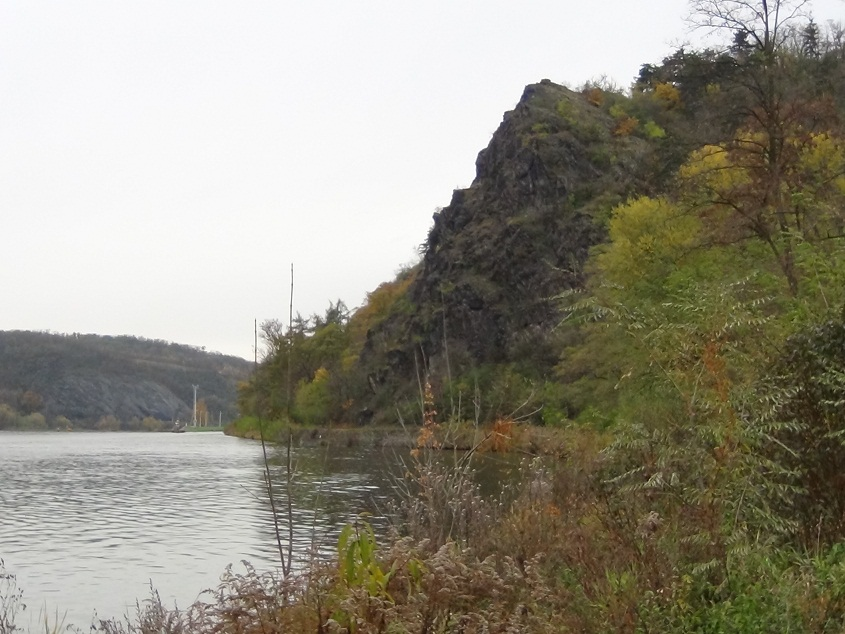 Choč rock in Máslovice, Prague-East District, Czech Republic